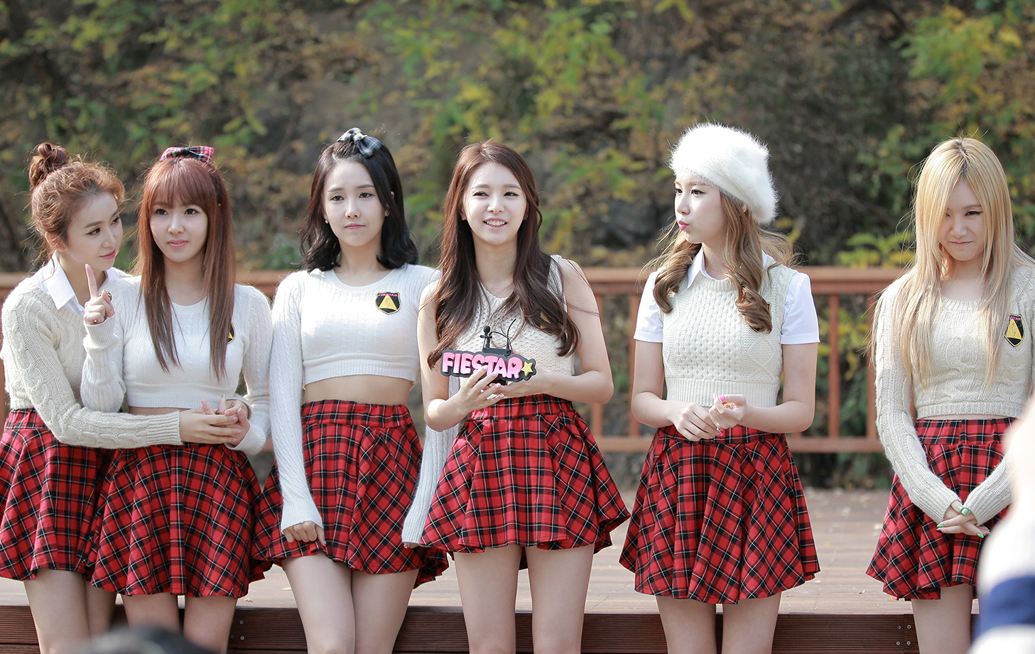 Fiestar (South Korean girl group).From left to right: Cao Lu, Hyemi, Linzy, Jei, Cheska, Yezi